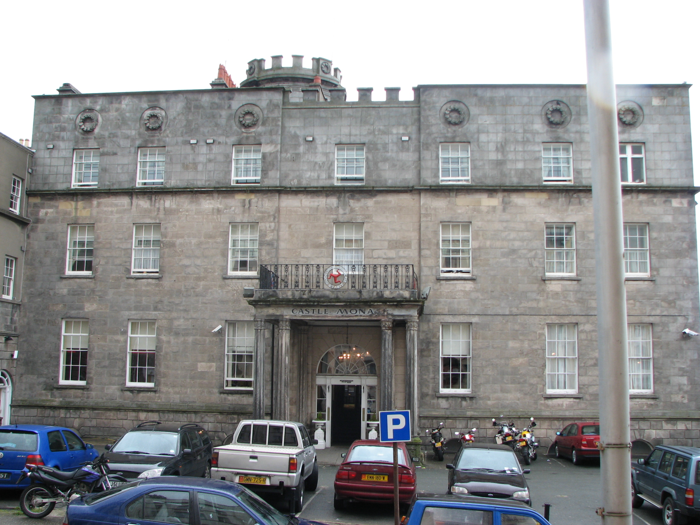 Castle Mone (old residence for the duke of Argyll), now hotel, in Douglas, Isle of Man